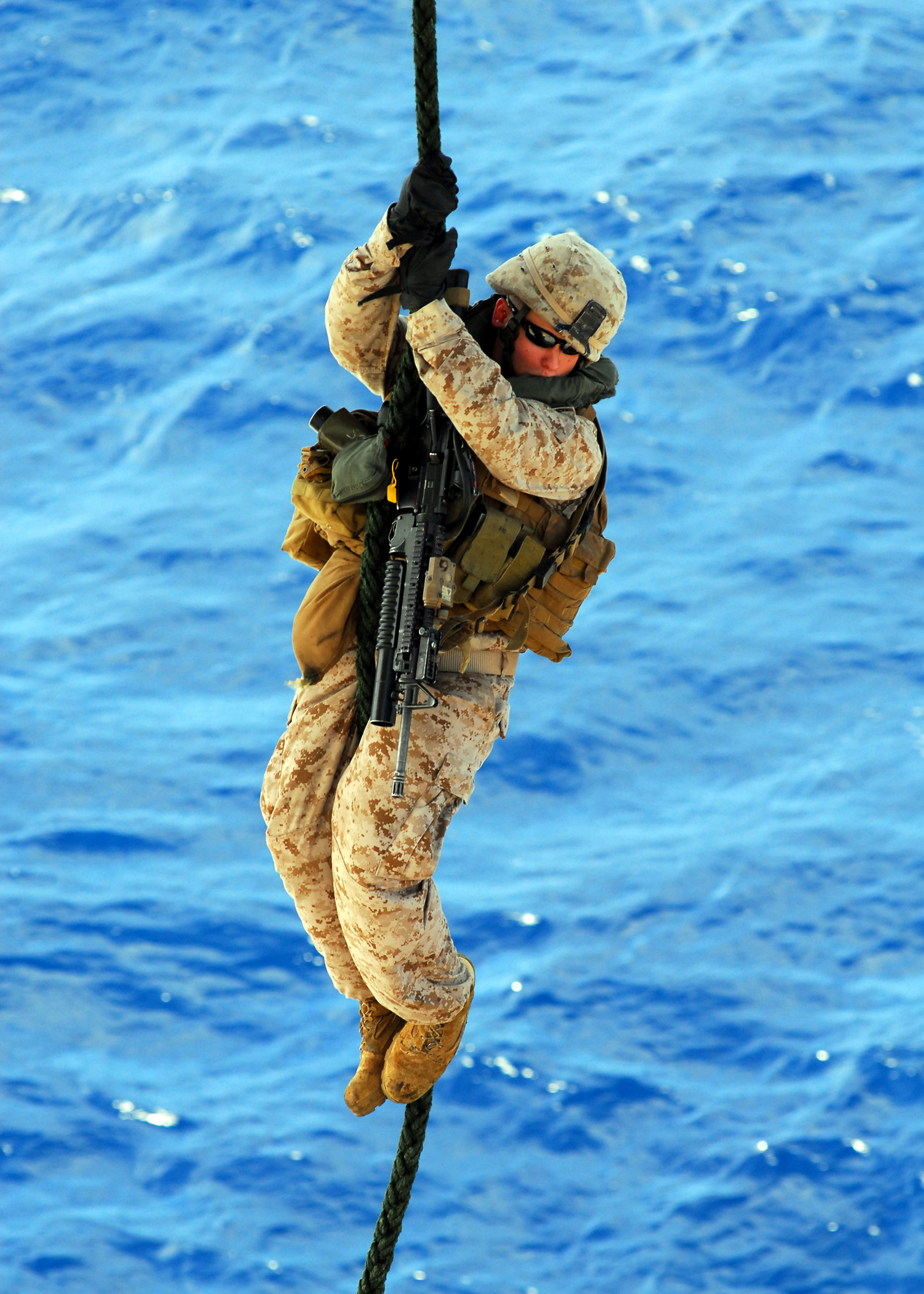 PACIFIC OCEAN (Oct. 21, 2008) A Marine performs a fast-rope training exercise from a CH-46E Sea Knight helicopter onto the flight deck of the amphibious assault ship USS Peleliu (LHA 5). Peleliu is deployed in the U.S. 7th Fleet area of responsibility. (U.S. Navy photo by Mass Communication Specialist 2nd Class Dustin Kelling/Released)